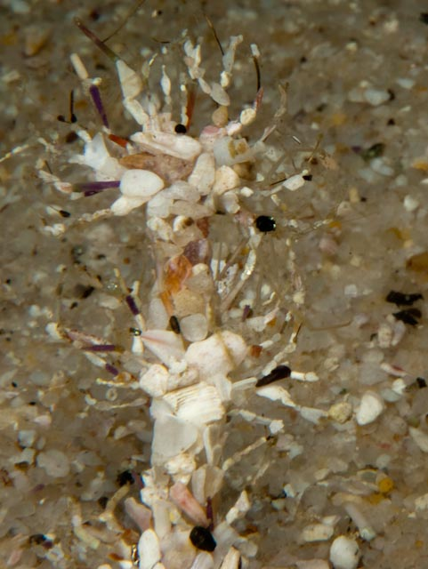 A photograph of the sand mason, Lanice conchilega, taken in 10m of water in False Bay Cape Town using a housed Fuji camera